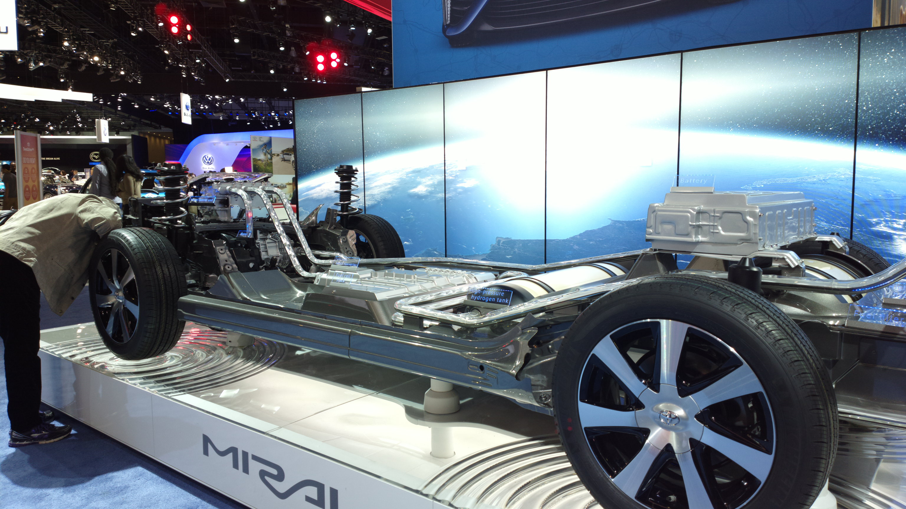 Toyota Mirai cutaway exhibited Los Angeles Auto Show 2014